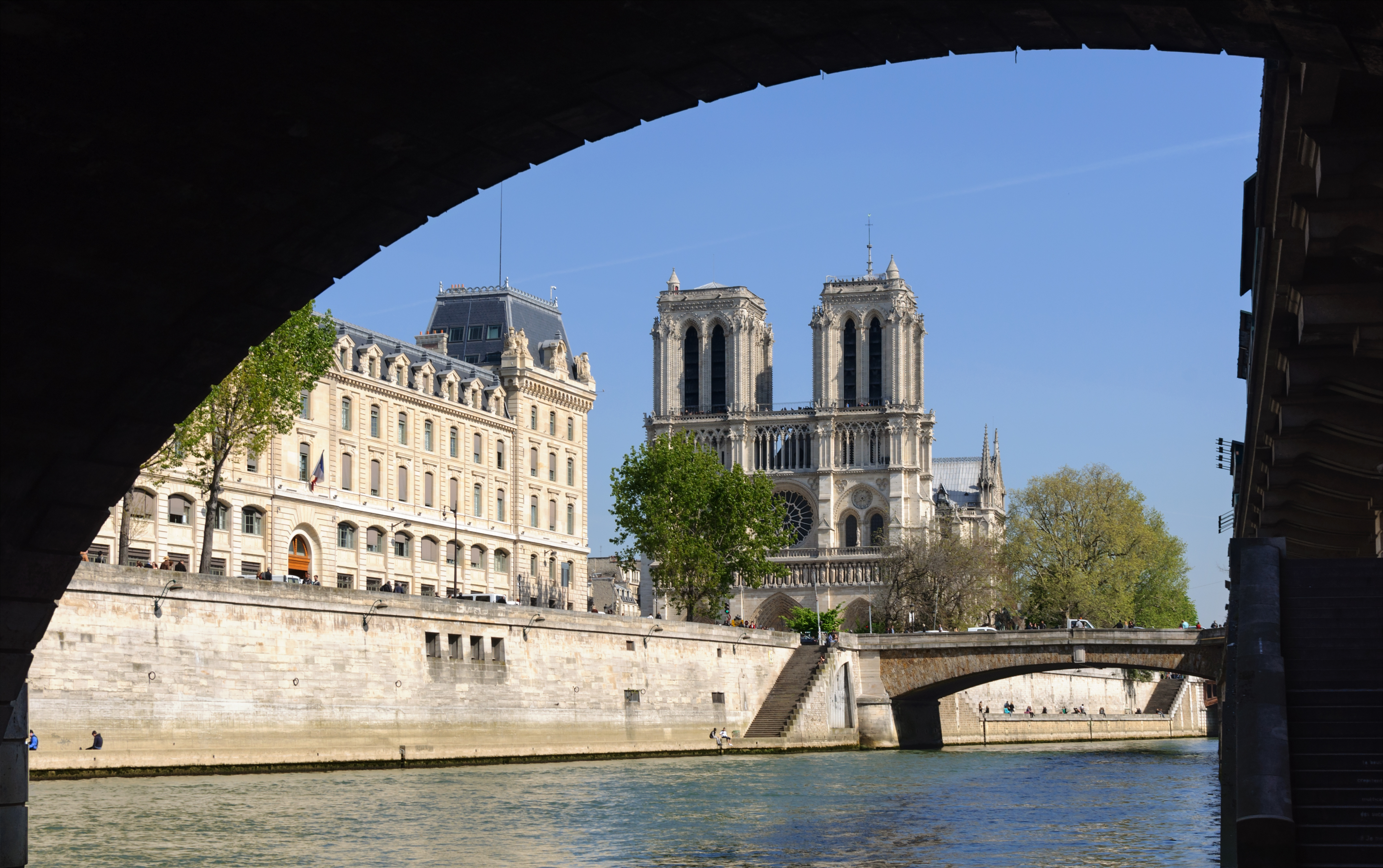 The quai du Marché-Neuf (New Market Embankment), Notre-Dame de Paris and the Petit-Pont (Little Bridge) as seen from under the Pont Saint-Michel (Paris, France)